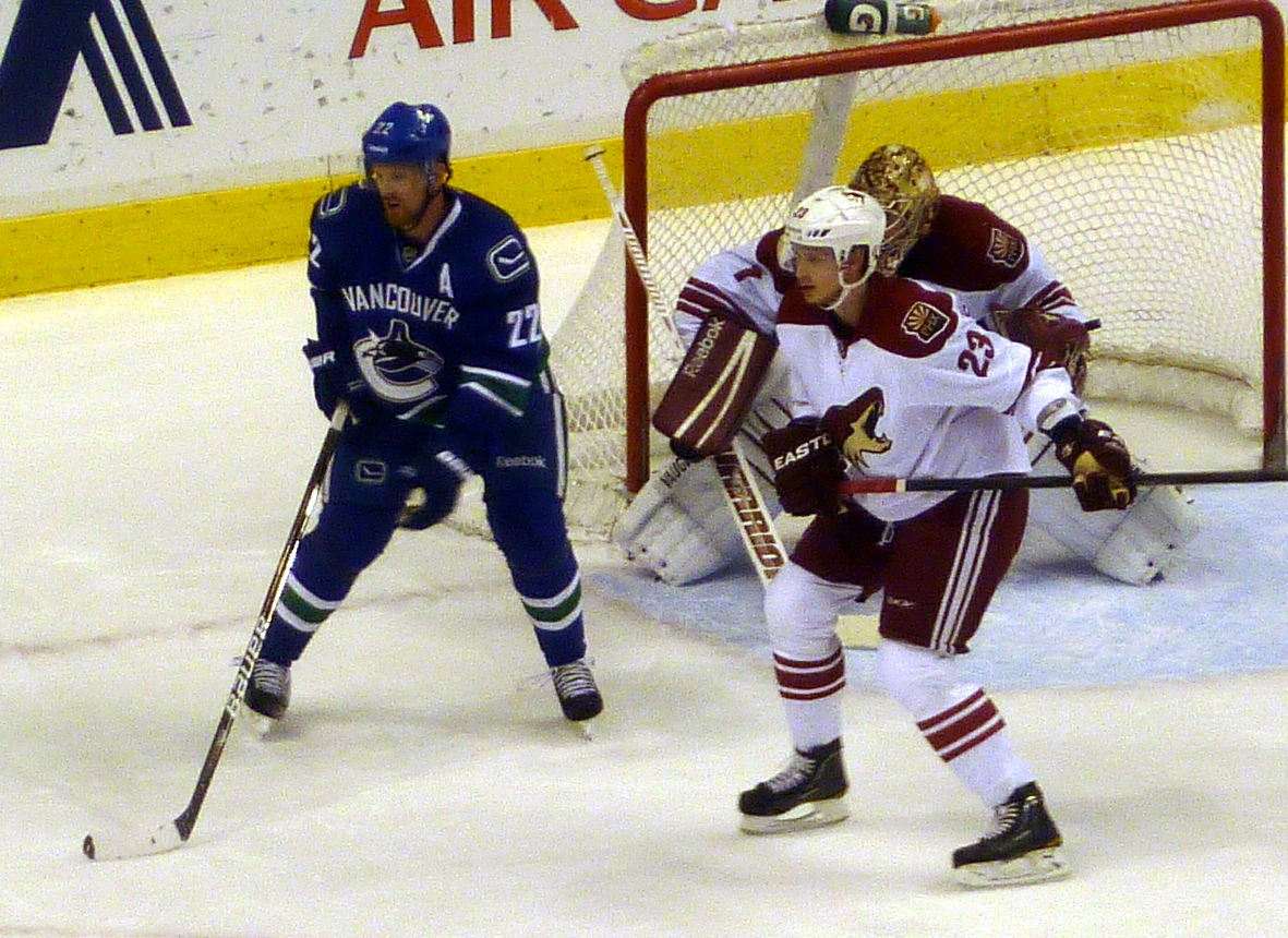 Forward Daniel Sedin (left) of the Vancouver Canucks and defenceman Oliver Ekman-Larsson (right) of the Phoenix Coyotes stand in front of Coyotes goaltender Jason LaBarbera (background) during a game on February 13, 2012.